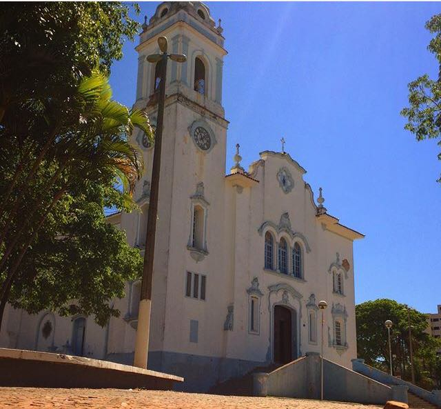 St. Benedict´s Basilica Cathedral (Marília - SP)